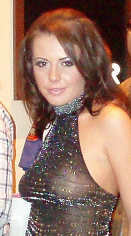 Penny Flame 2006 AVN Awards